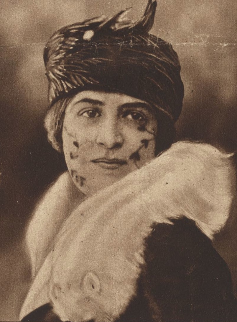 Marian Newhall Horwitz O'Brien (1882-1932) was a wealthy Philadelphian who became the first woman mayor in the U.S. south in 1917, in Moore Haven, Florida.